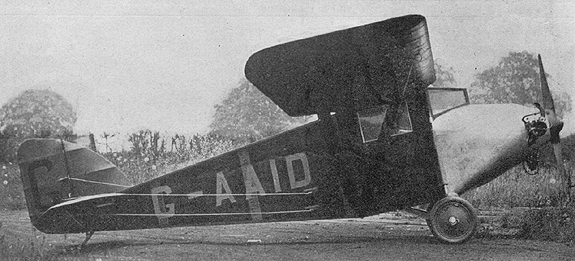 A.B.C.Robin